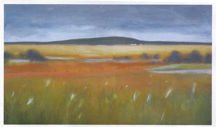 'Mur fy Mebyd' - title of painting which I painted myself. The scene is Cors caron near Aberystwyth.